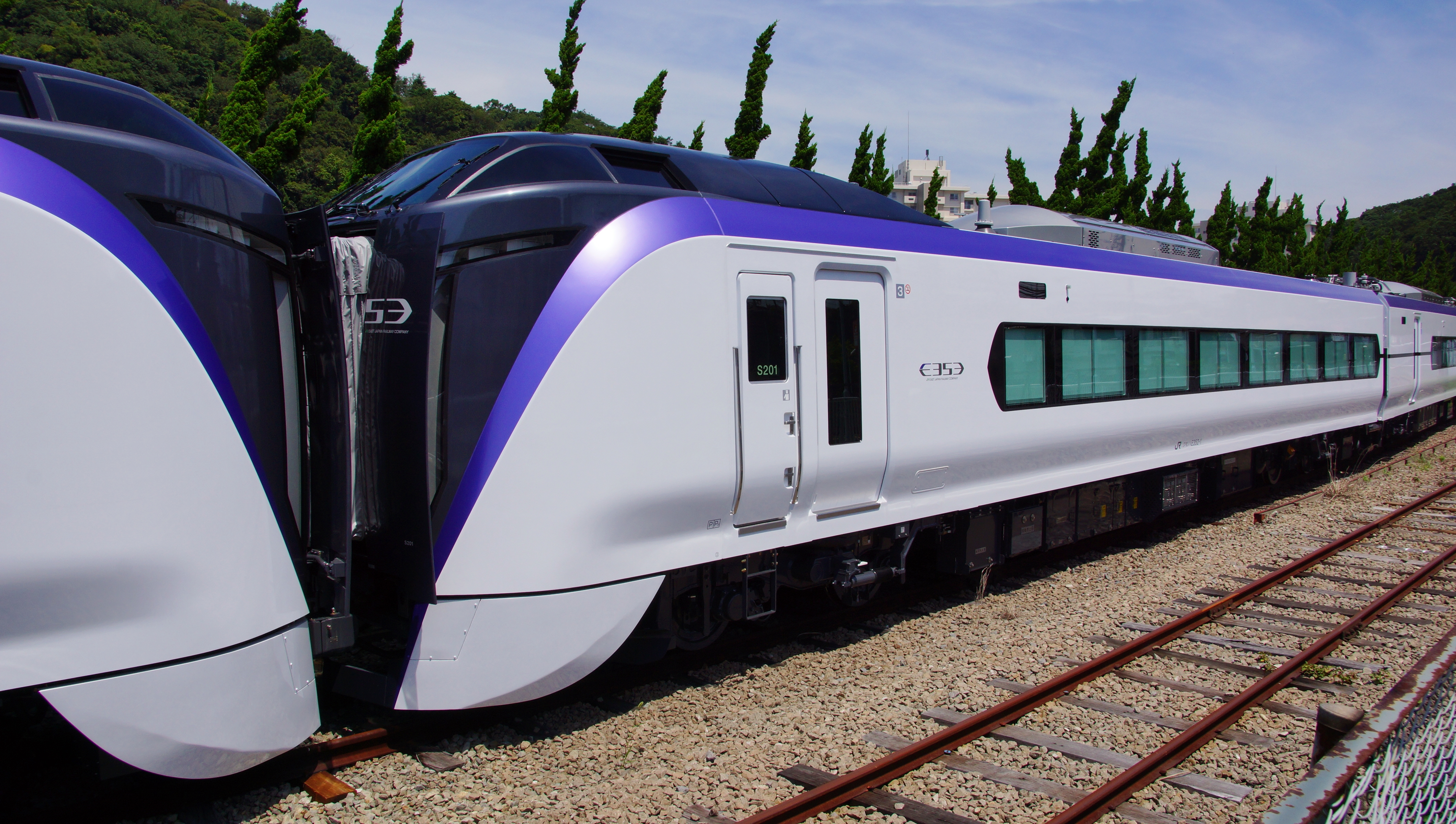 JR East E353 series EMU sets S201 (right) and S101 (left) next to Jimmuji Station on delivery from the J-TREC factory in Yokohama